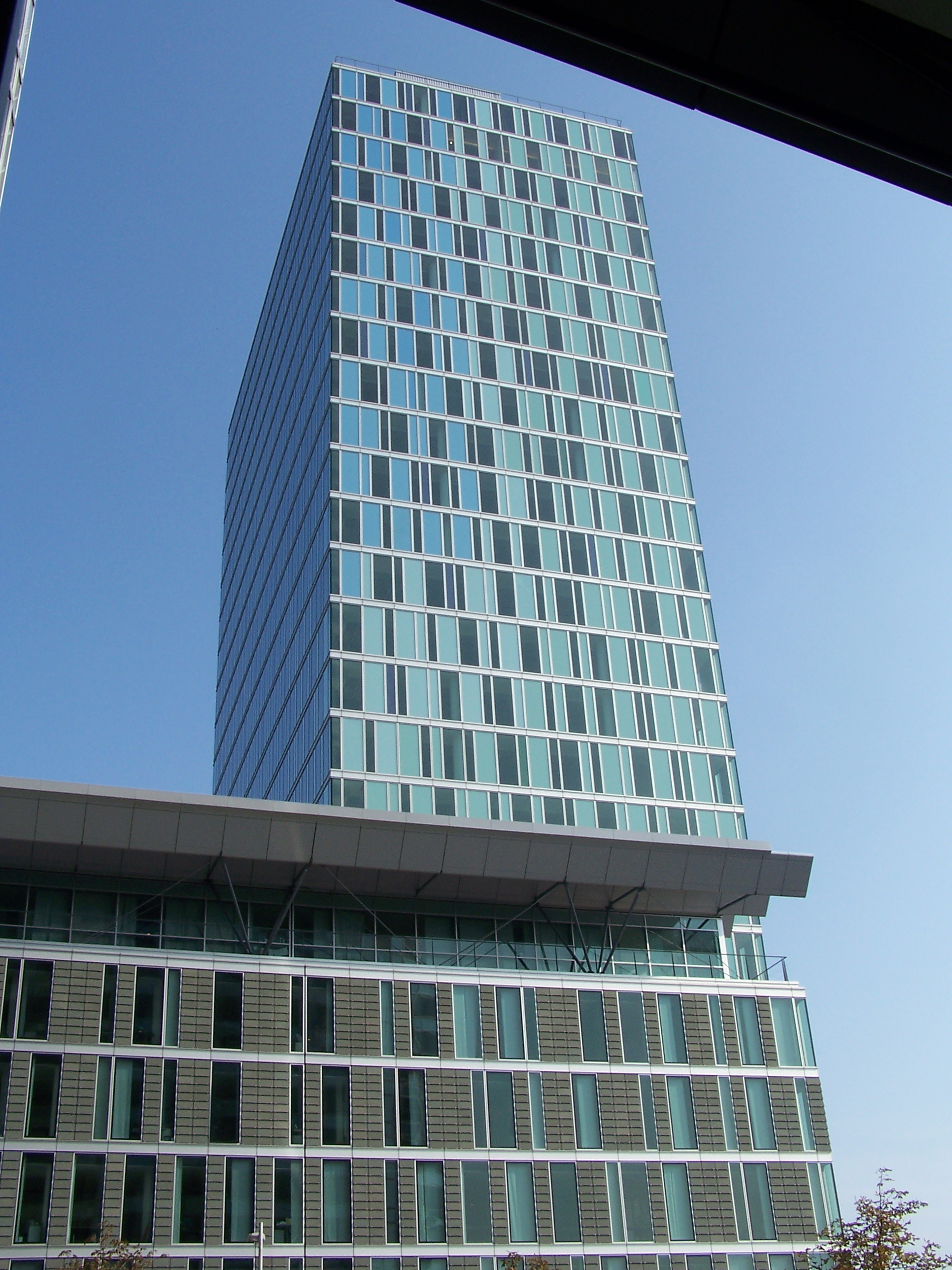 This picture shows the Zuidas in Amsterdam. Author: Mig de Jong, september 2005